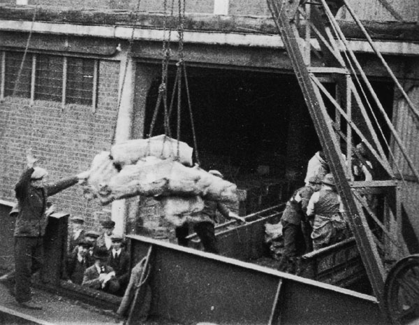 Reproduction ID: H3858 Maker: Unknown Date: May 1926